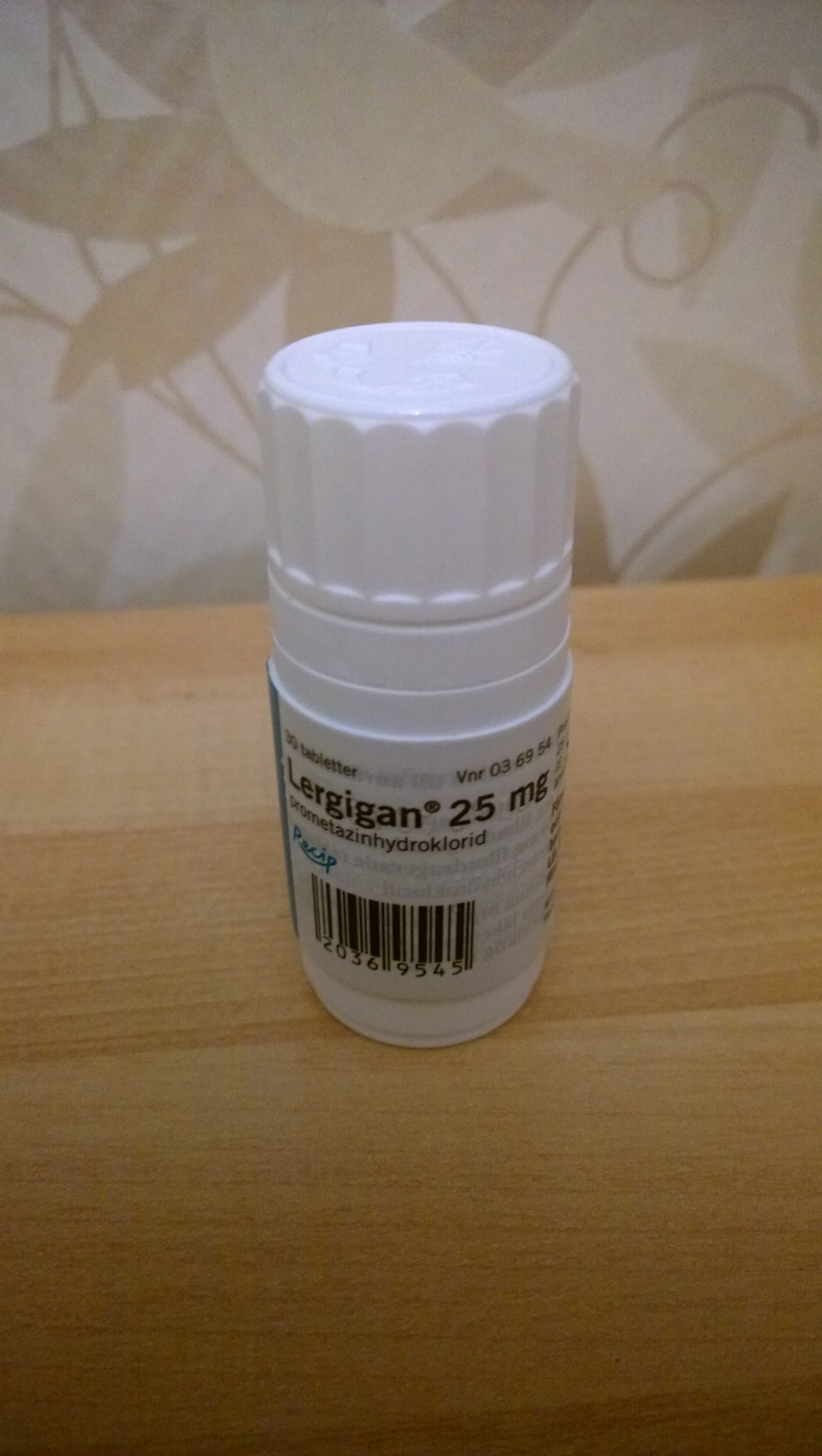 Promethazine (Lergigan)